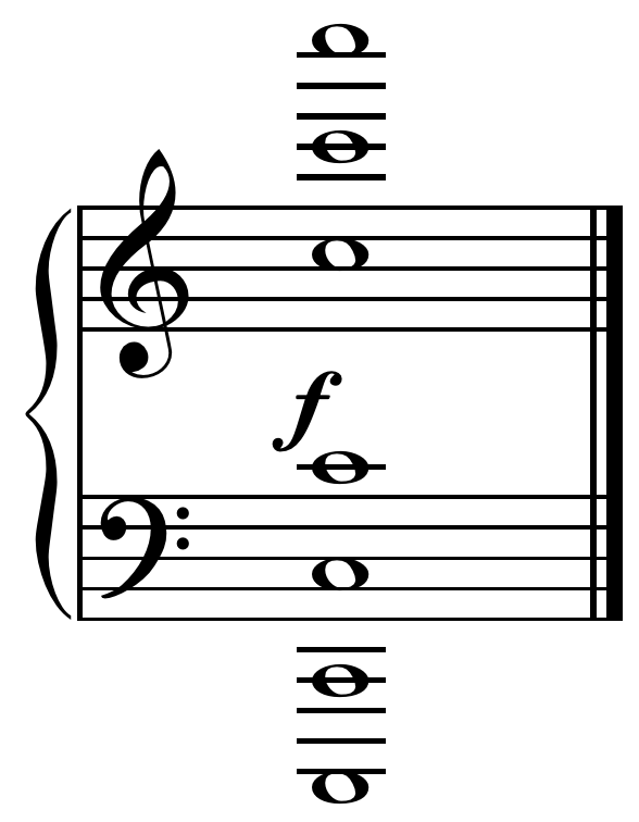 Pitch class on C. Created by Hyacinth (talk) 11:14, 16 September 2010 using Sibelius 5.